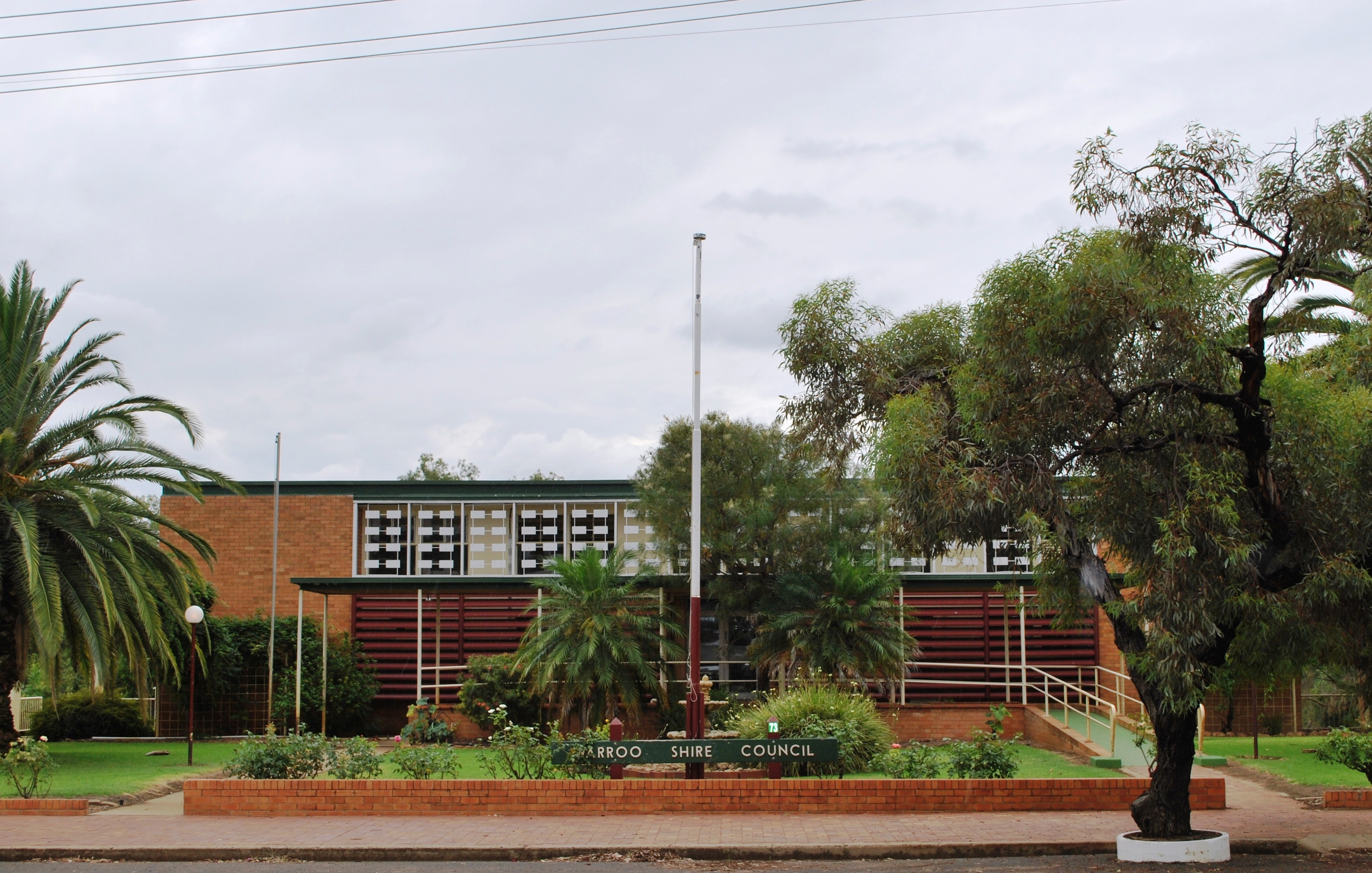 Warroo Shire Council office at Surat, Queensland